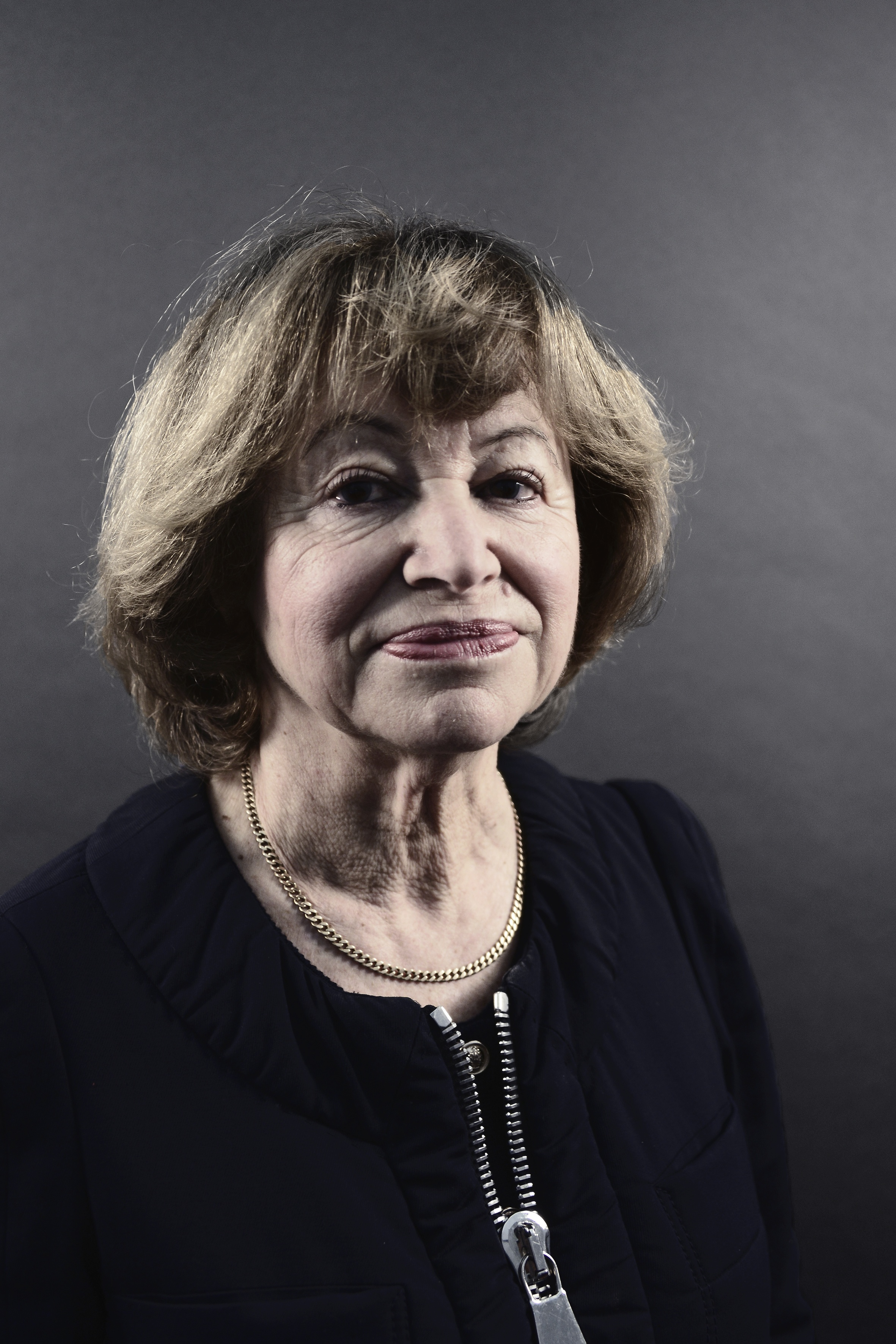 French astronomer Catherine Cesarsky. This picture was taken in Genoa, Italy, at the 2012 Festival della Scienza.